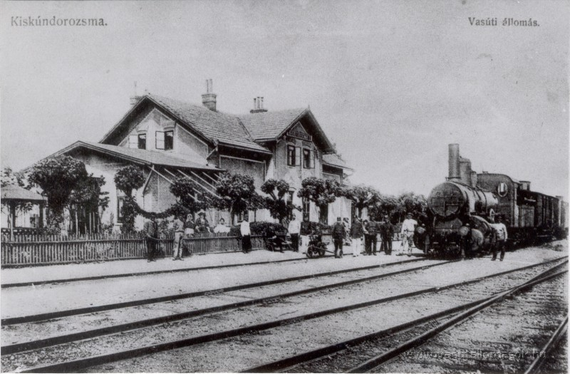 Kiskundorozsma, railway station